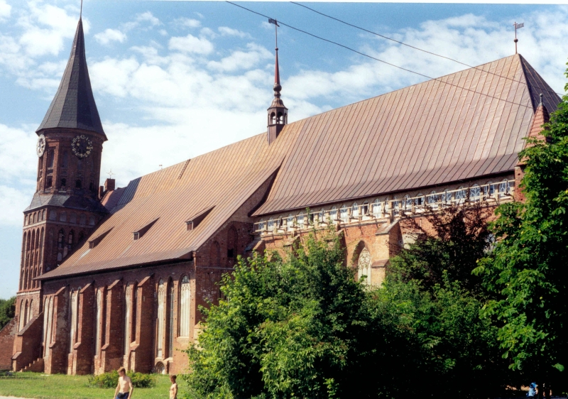 Königsberg (East Prussia): Königsberg Cathedral.